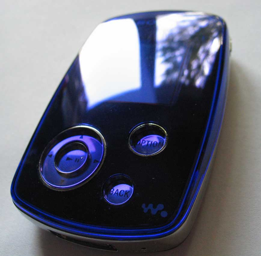 Own work, picture taken on 15th October 2007 of Sony NW-A1000V 6GB MP3 Player. Anybody is allowed to copy and edit this picture without permission.